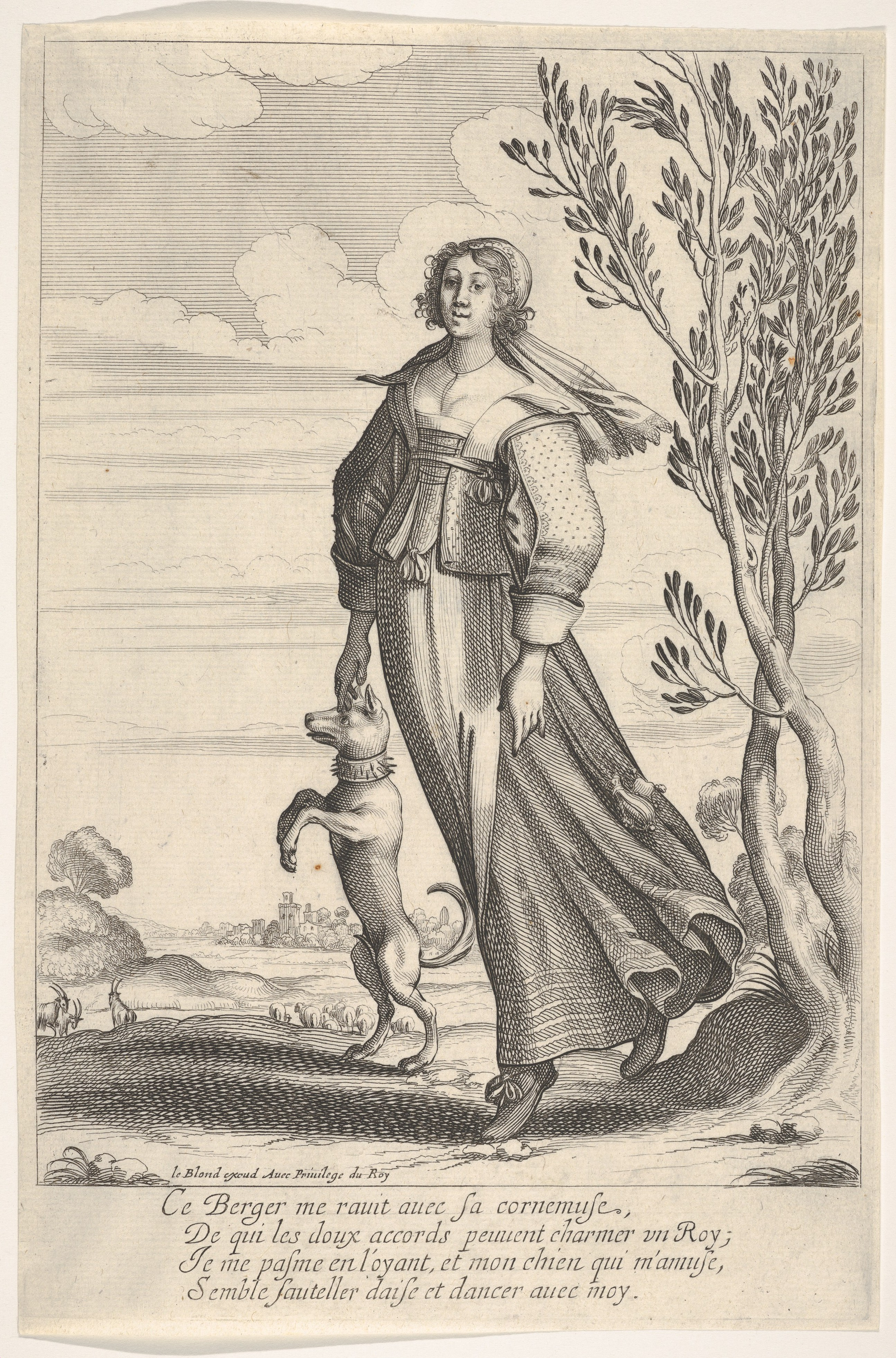 Print; Prints